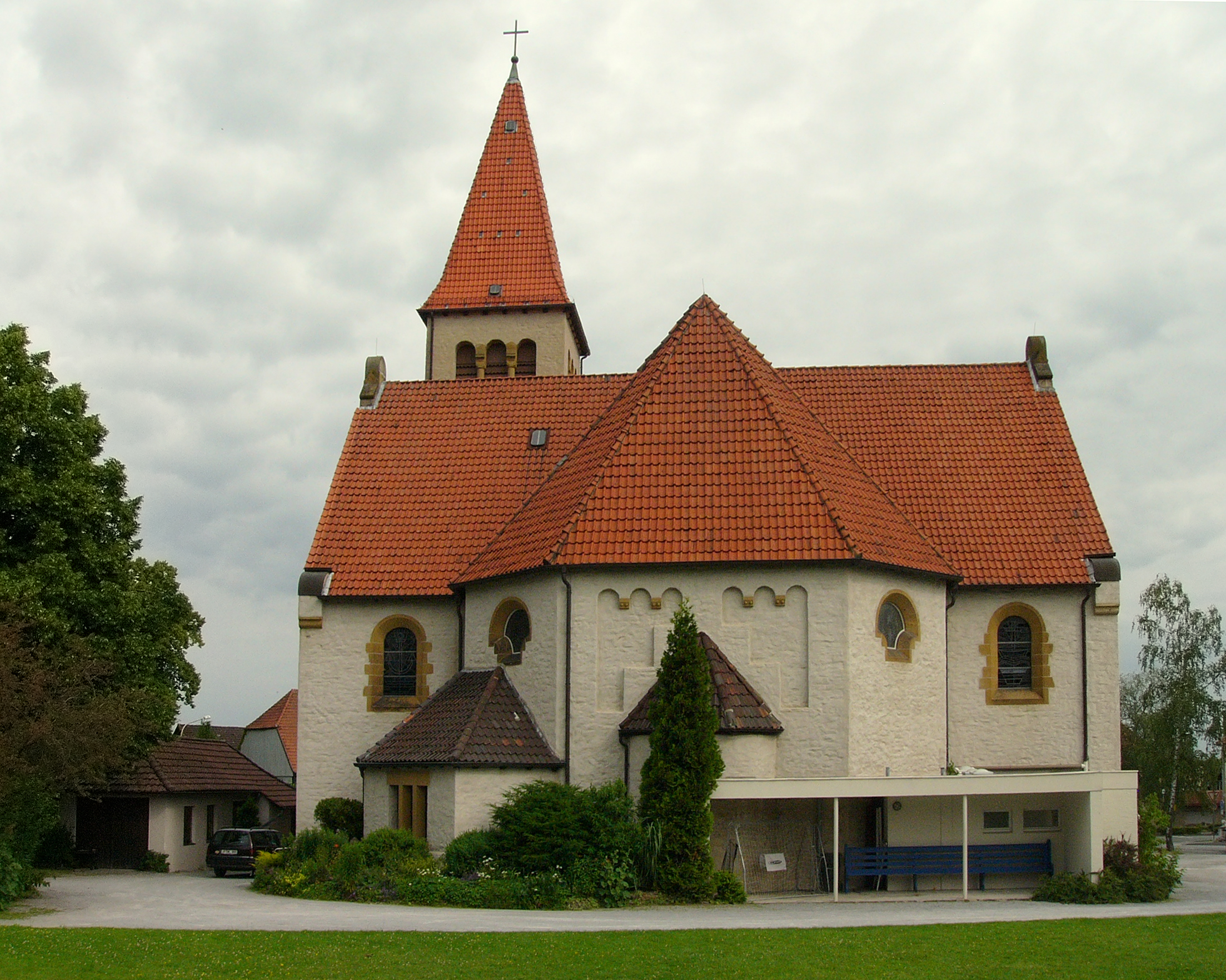 Reformed Evangelical church in Helpup, district of Oerlinghausen, Germany.